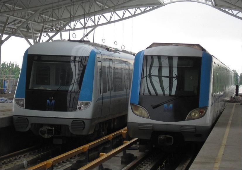 Type B of wuhan metro 中文（中国大陆）: 武汉地铁1号线车辆